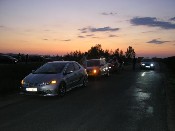 Spot at Swidnica.